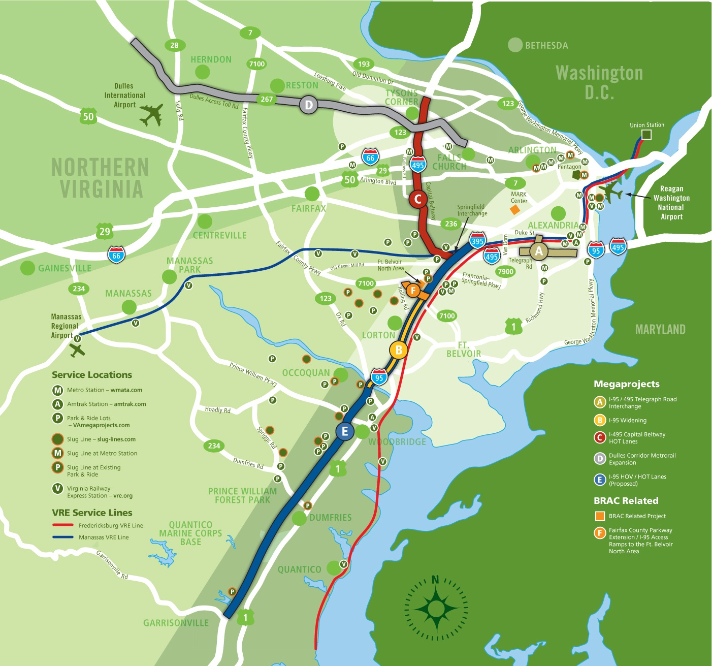 Virginia Megaprojects Transportation Improvements, Northern Virginia